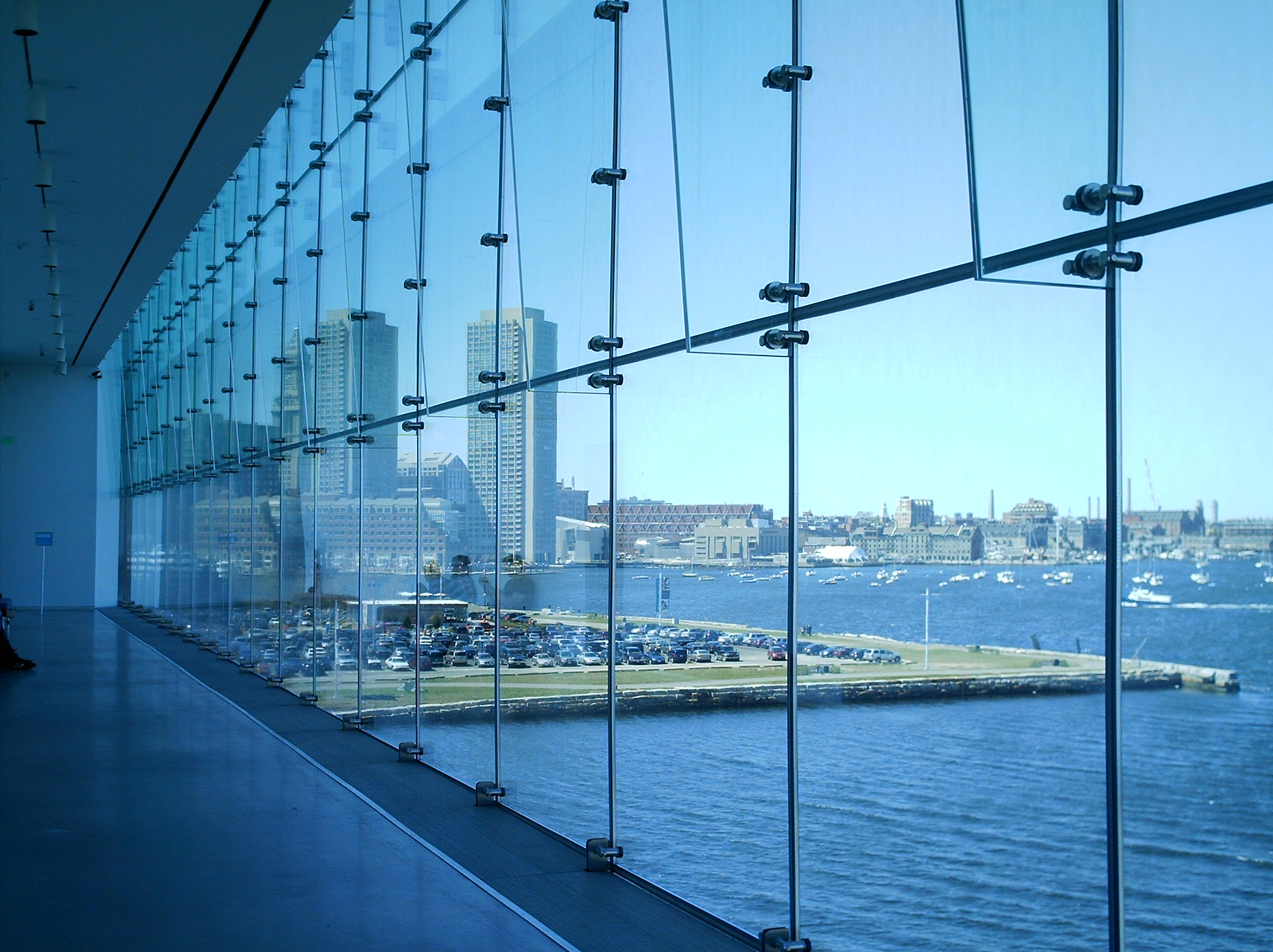 The Founder's Gallery at the ICA Boston